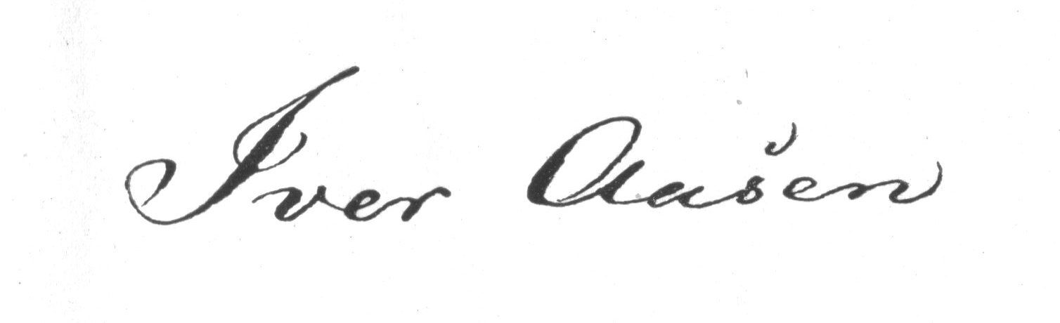 Ivar Aasen's (1813–96) signature.